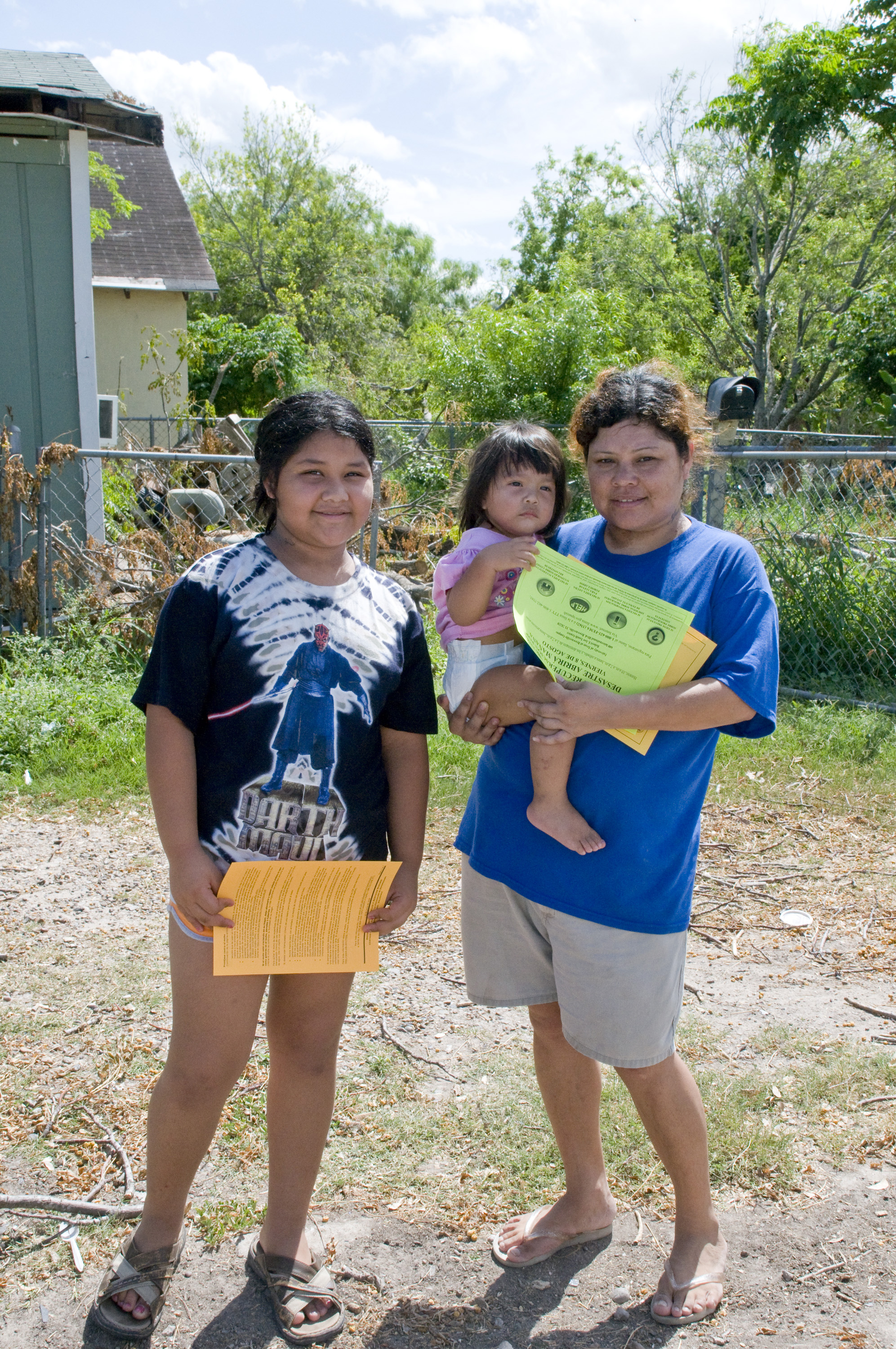 San Juan, TX, August 12, 2008 -- Residents of one of the many "Colonies" located along the border between Texas and Mexico are receiving visits from FEMA Community Relations representatives. These women live in one of the San Juan, Texas colonies. Photo by Patsy Lynch/FEMA